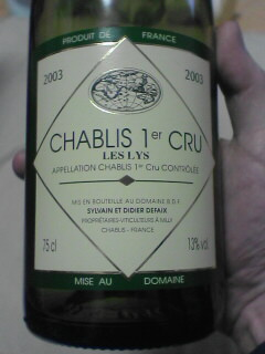 French Chablis wine